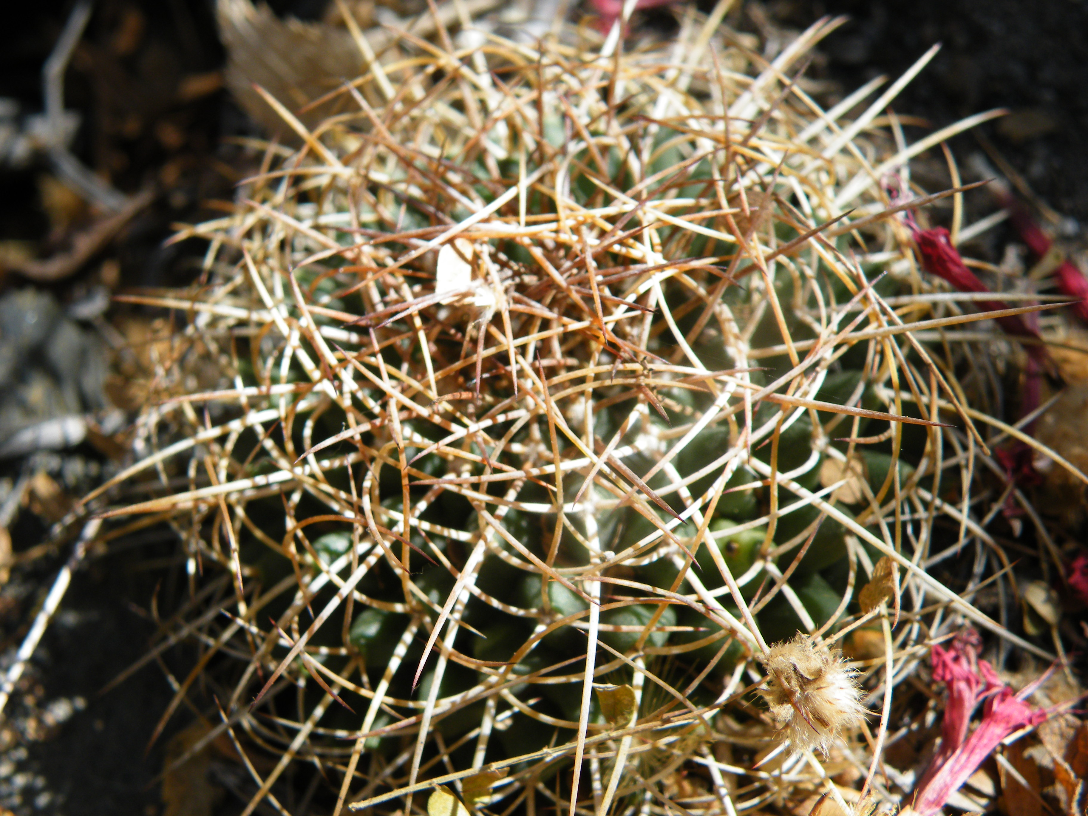 Metzquititlan North, Hidalgo